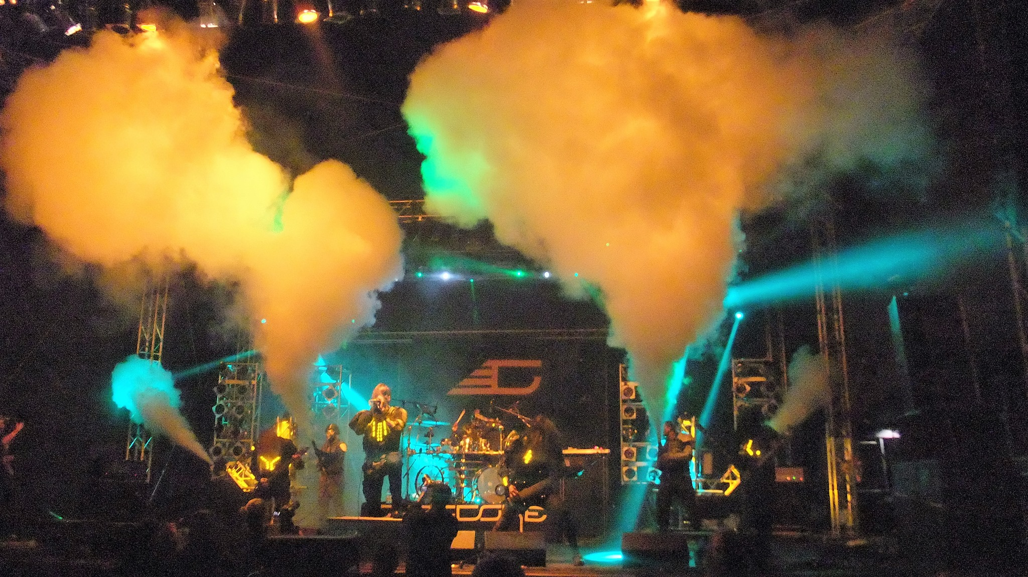 Cypecore show